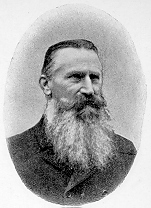 Ferdinand Sander (1840–1921), German protestant theologian and pedagogist and school principal